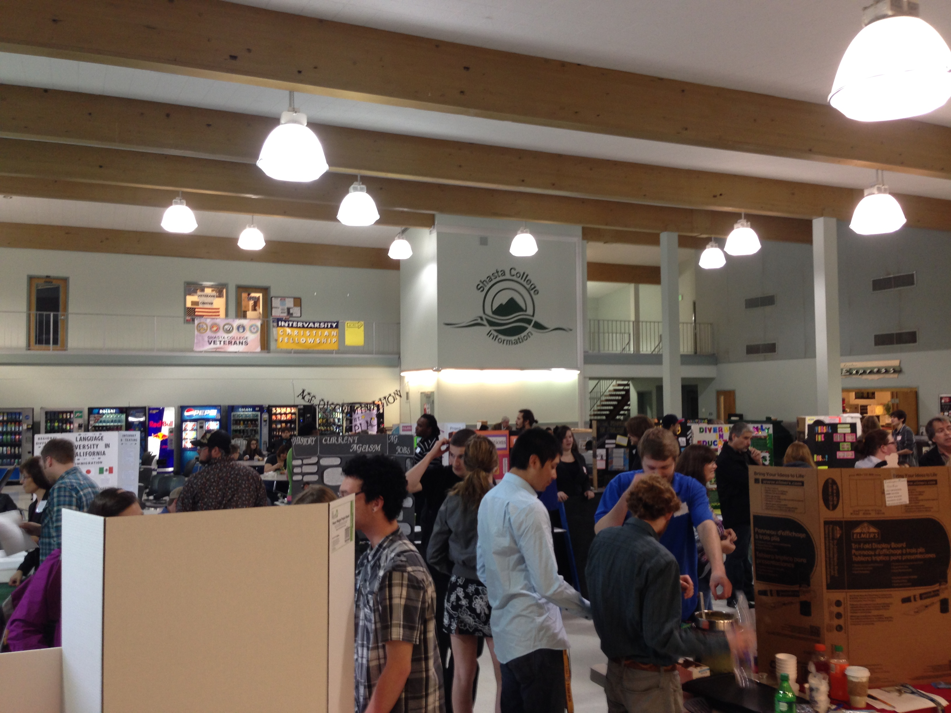 Shasta College Civic Expo 2014